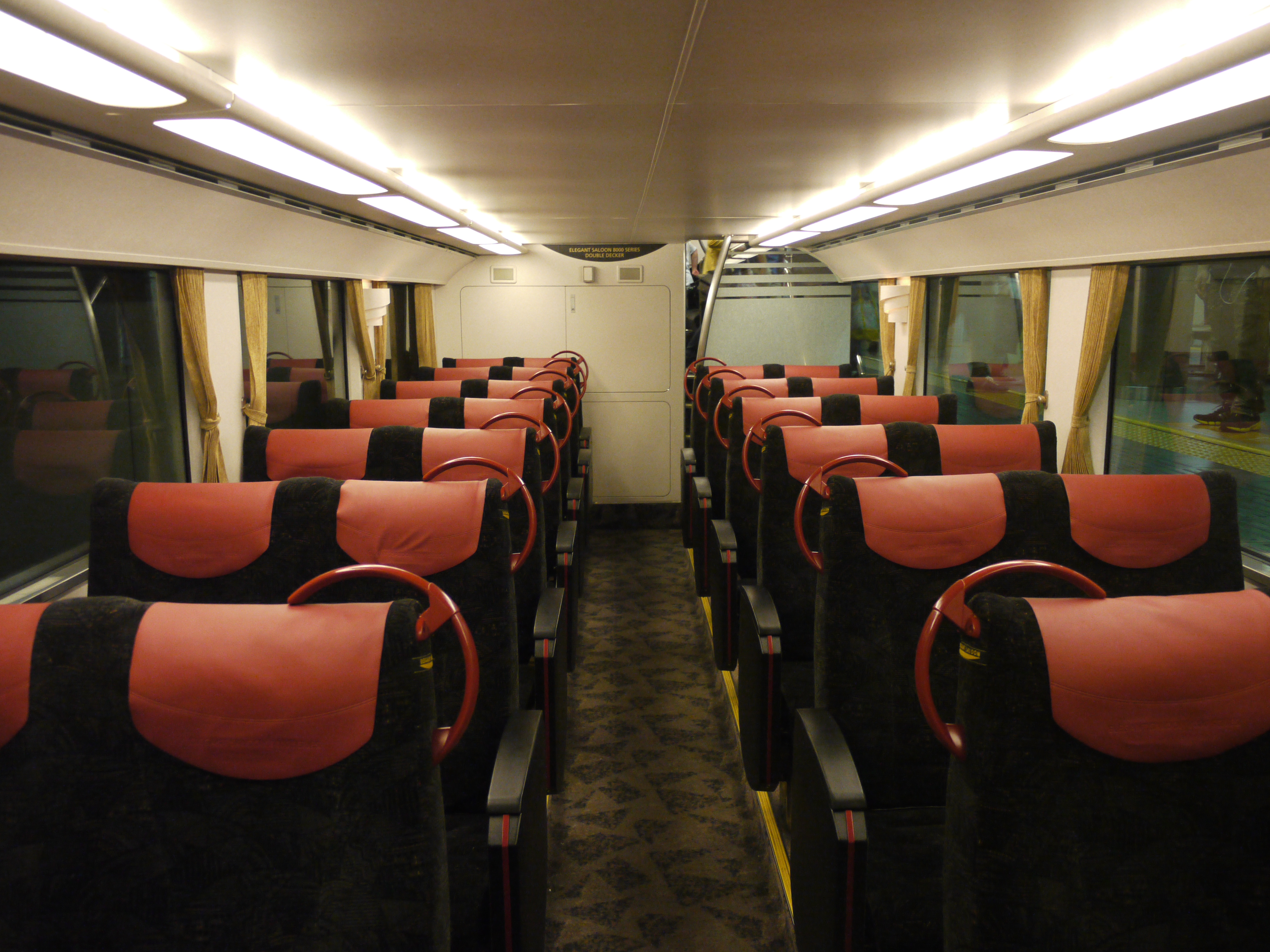 The lower deck of a Keihan 8000 series type 8800 double-decker car